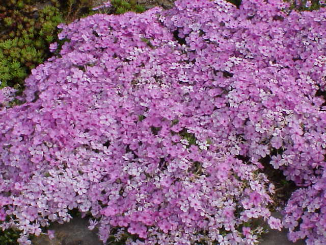 Species: Phlox douglasii Family: Polemoniaceae Image No. 1